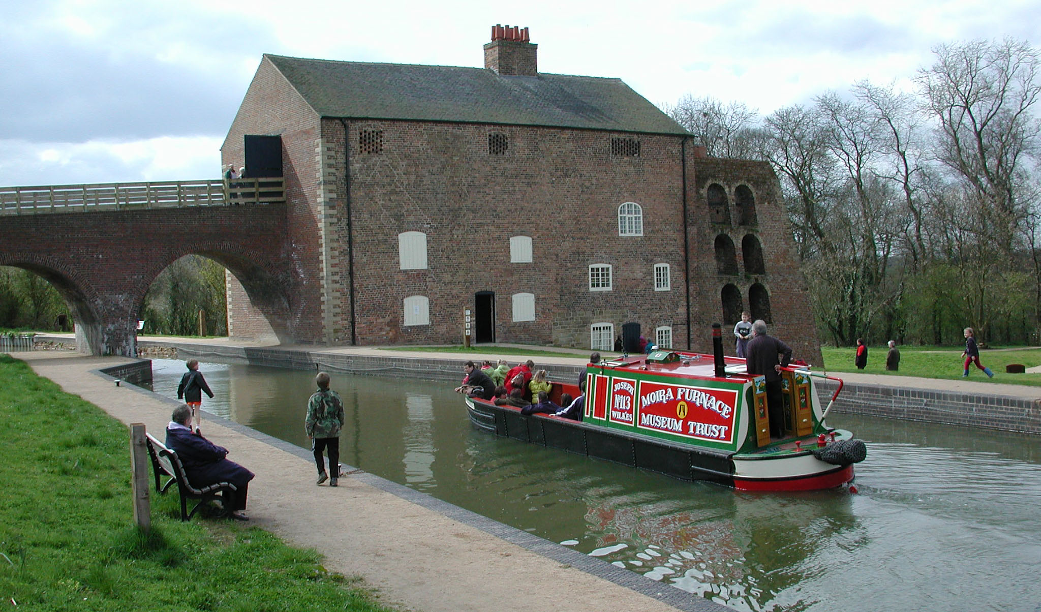 Moira Furnace and the Ashby Canal. Photograph taken by myself in 2001.